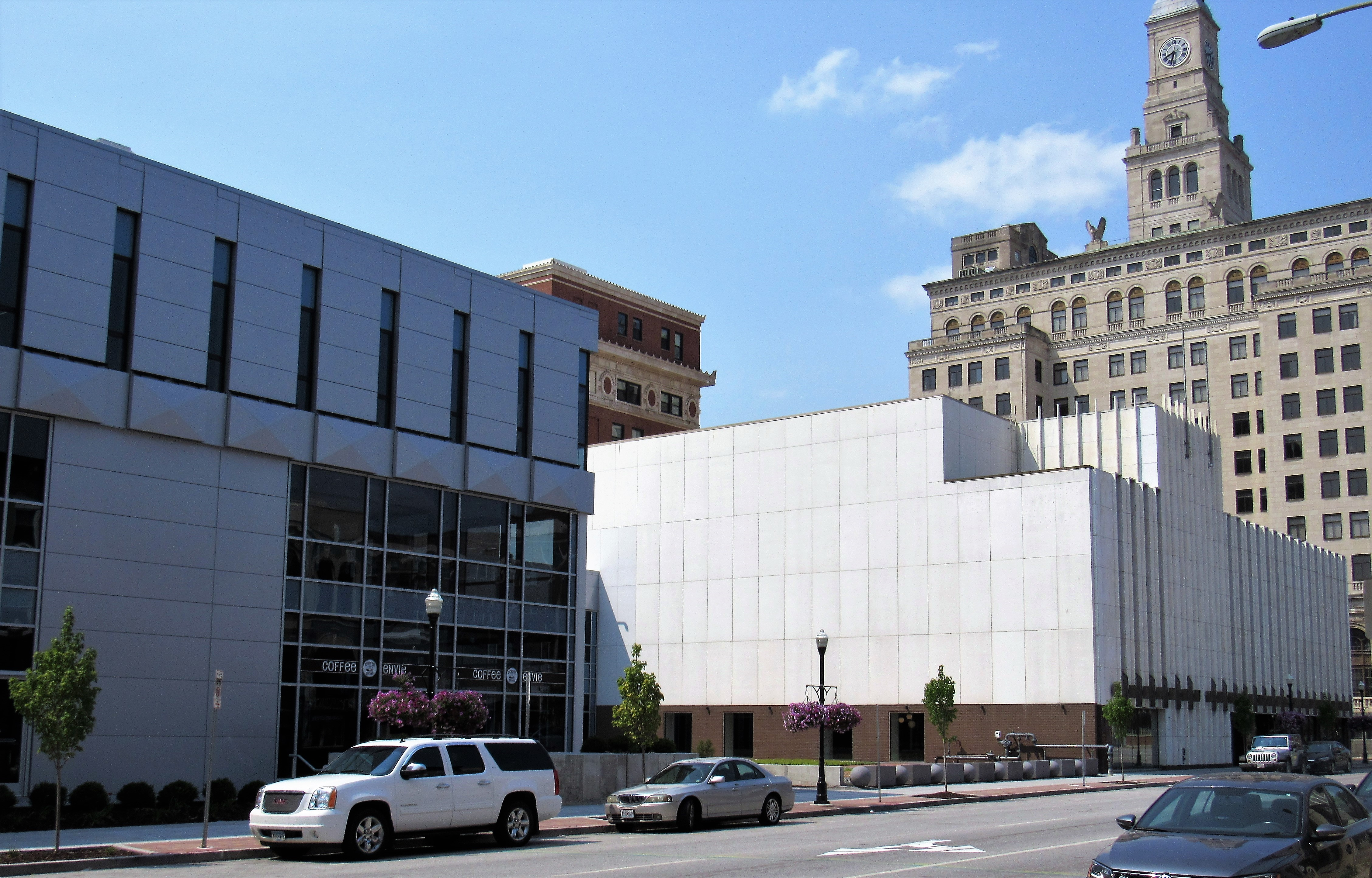 Scott Community College Urban Campus in downtown Davenport, Iowa. The building on the right is the First Federal Savings and Loan Association Building, which is listed on the National Register of Historic Places.